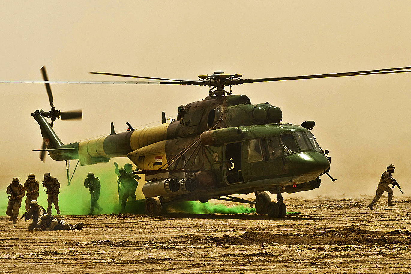 Iraqi army soldiers exit an Iraqi Air Force Mil Mi-17V-5-helicopter during a live-fire exercise in Maysan province in Iraq. The U.S. Army's 1st Cavalry Division's 4th Brigade Combat Team assisted in training the Iraqis.